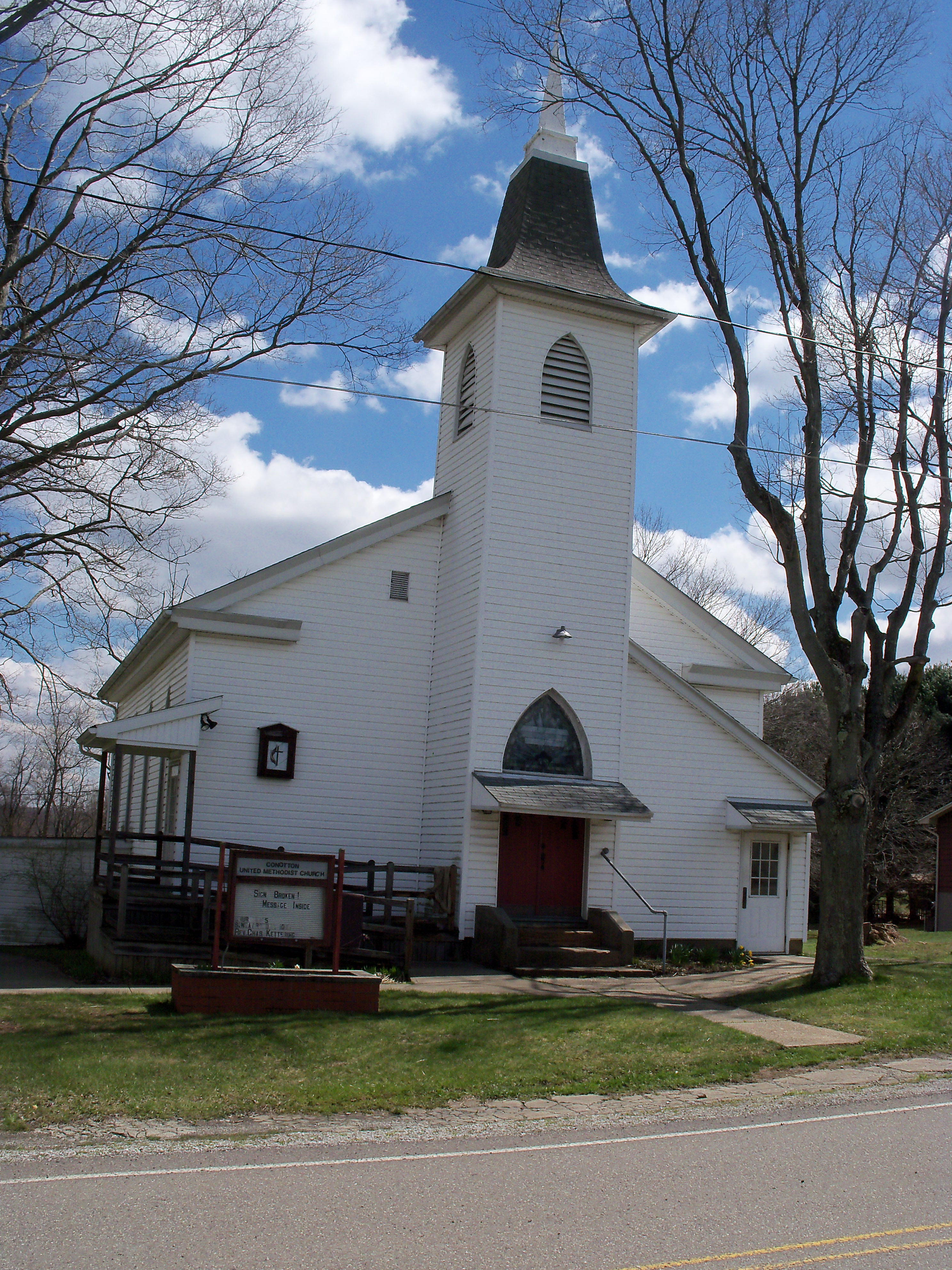 Conotton, Ohio United Methodist Church, built 1857, rebuilt 1909